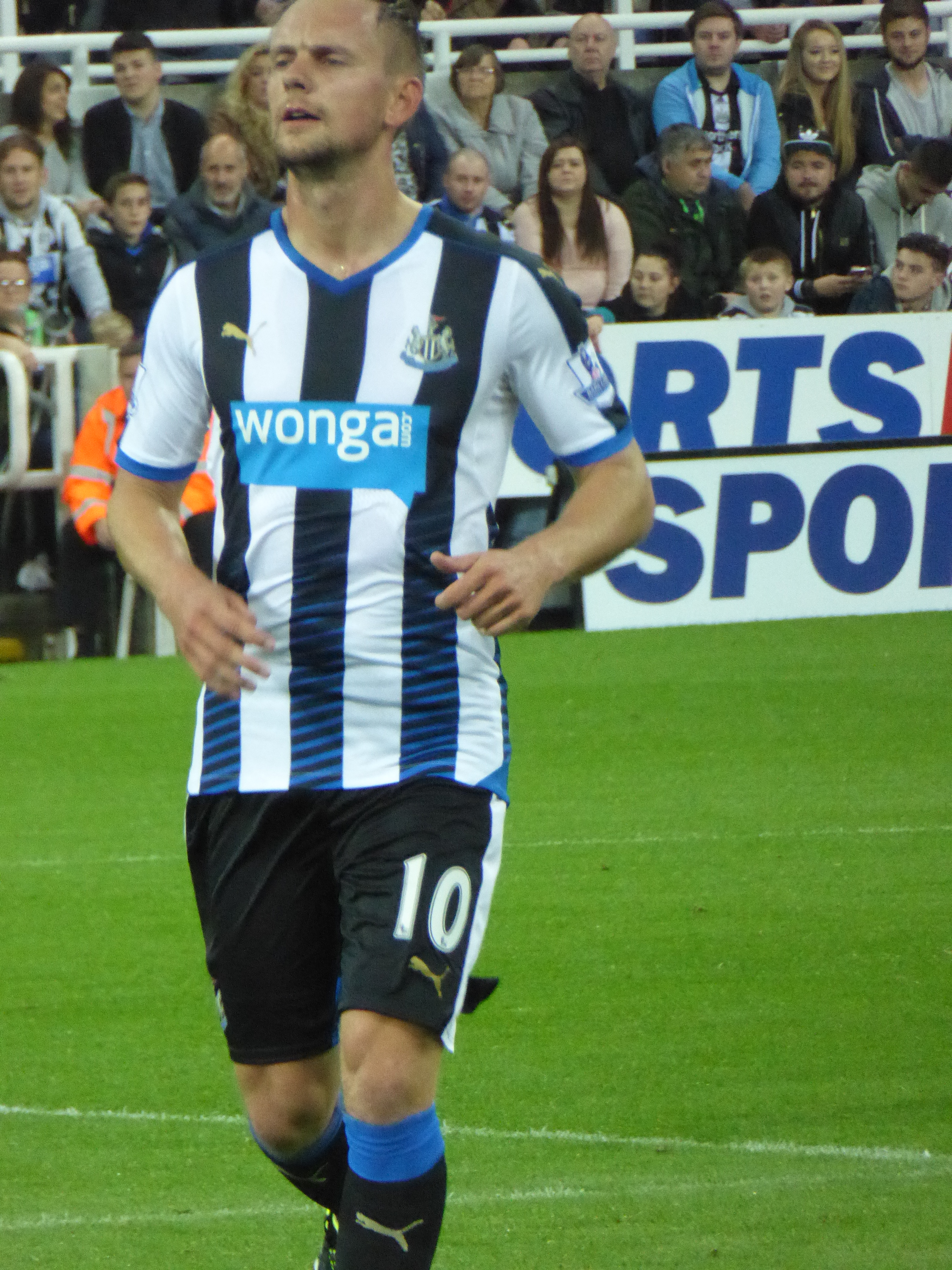 Newcastle United vs Sheffield Wednesday (0-1), Capital One Cup Third Round, St James' Park, Newcastle upon Tyne, Tyne and Wear, England, September 2015